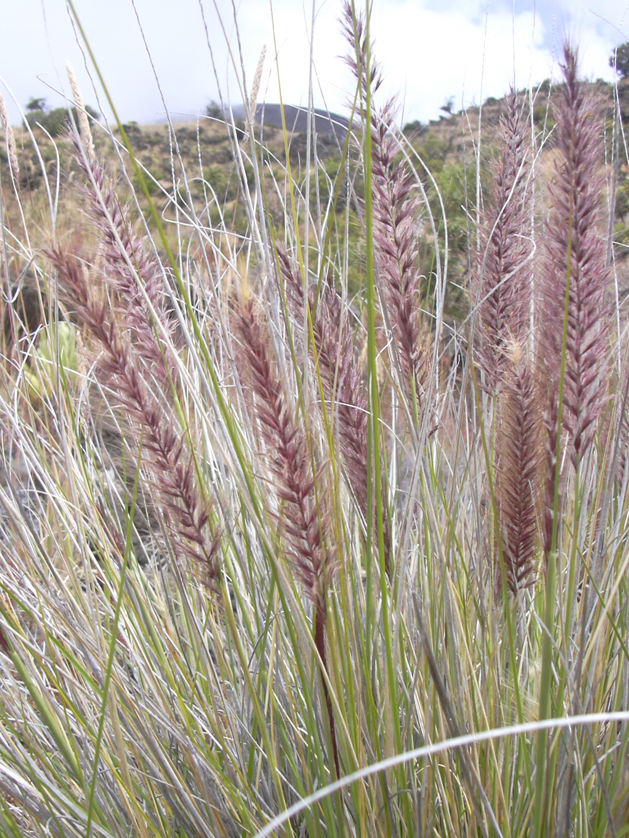 Pennisetum setaceum (habit). Location: Hawaii, Puu Kole